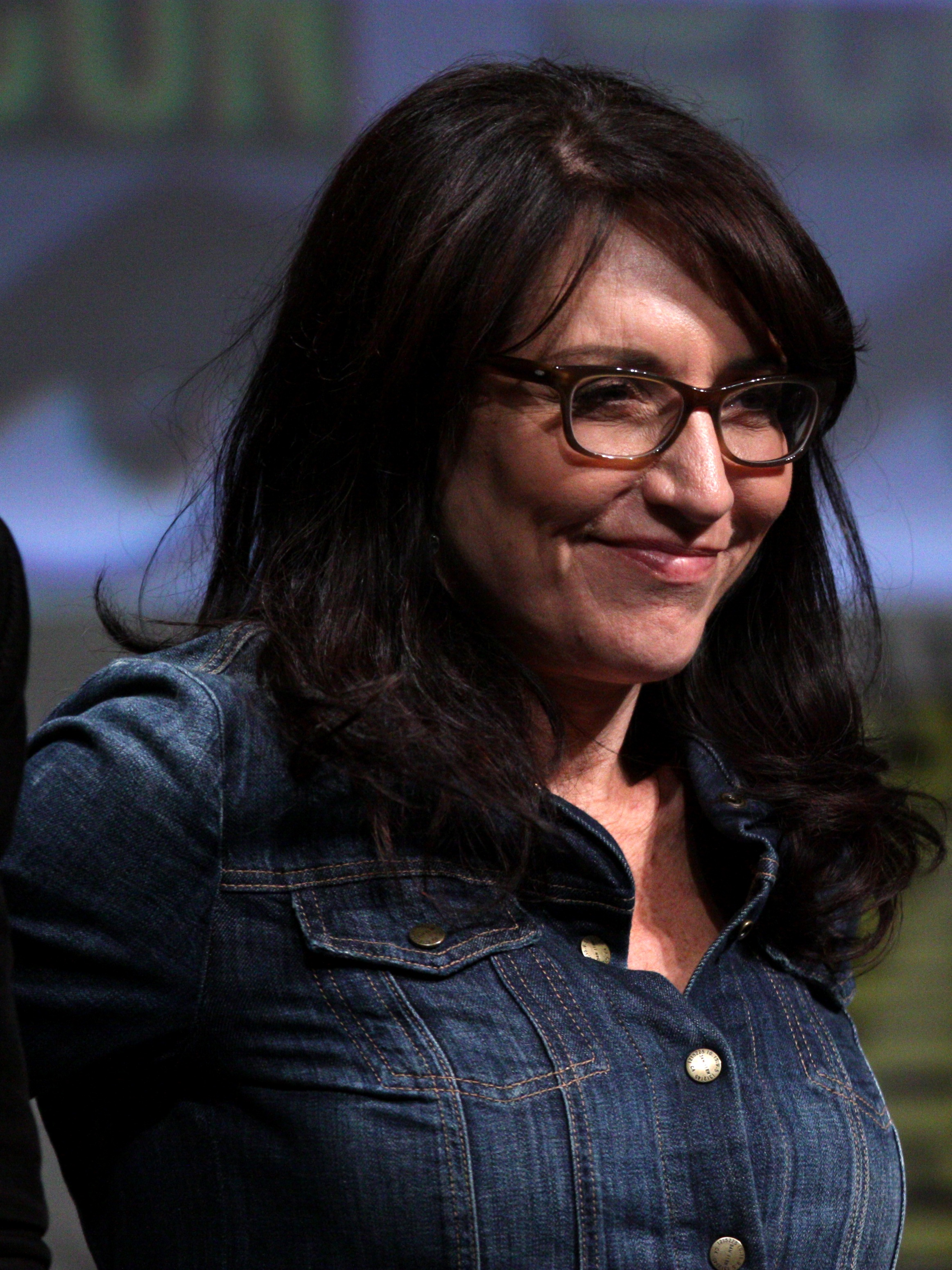 Katey Sagal @ 2012 San Diego Comic-Con International